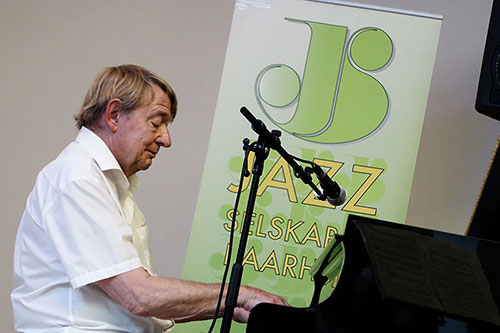 Niels Jørgen Steen playing at Aarhus Jazz Festival 2015